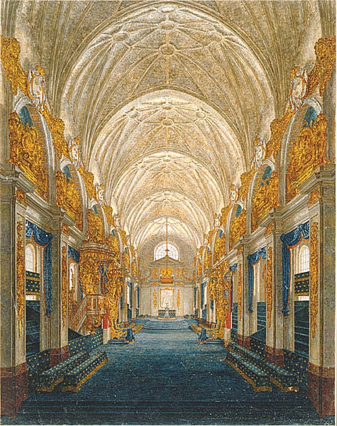 Coronation display in Storkykan on the Coronation of Gustaf III. By Olof Fridsberg